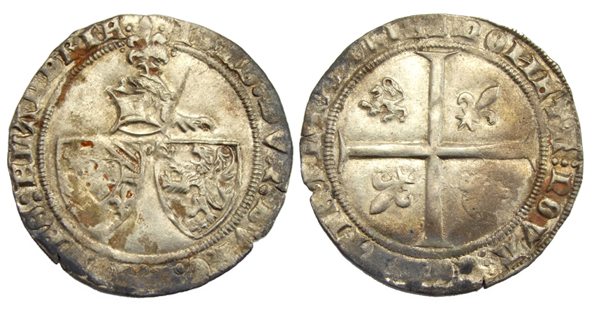 Double groat or 'Braspenning', struck under John the Fearless, Duke of Burgundy